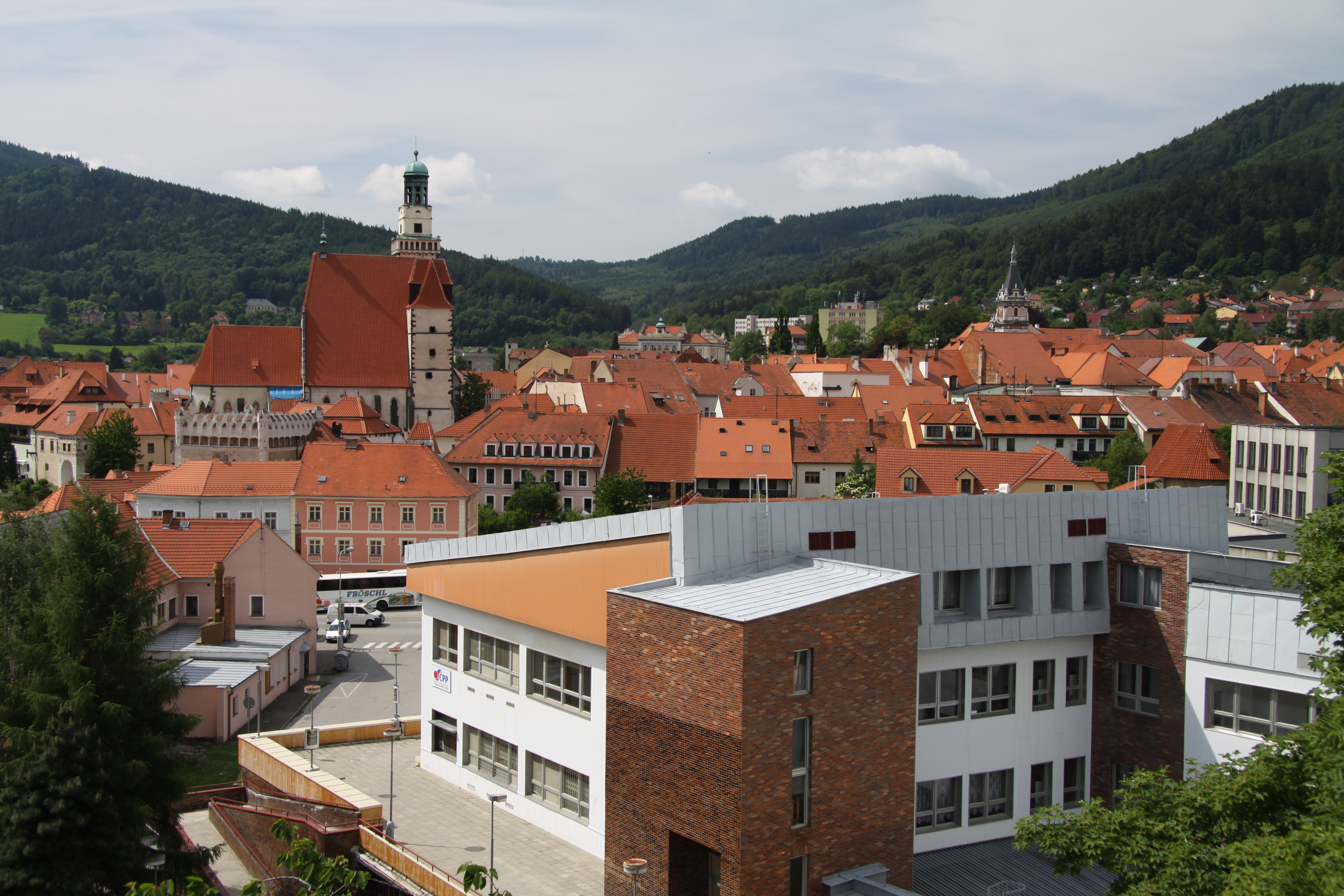 View to the historical centrum of Prachatice from natural monument Žižkova skalka, Prachatice District, Czech Republic